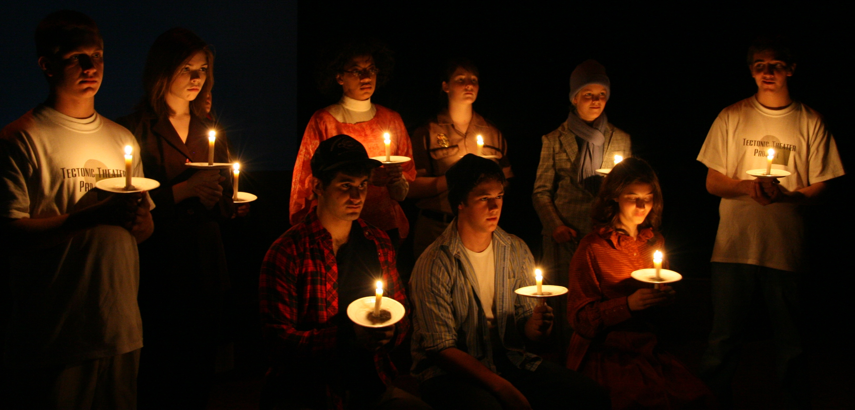 A scene from a 2008 performance of The Laramie Project at Mary Institute and St. Louis Country Day School depicting the vigils held for Matthew Shepard